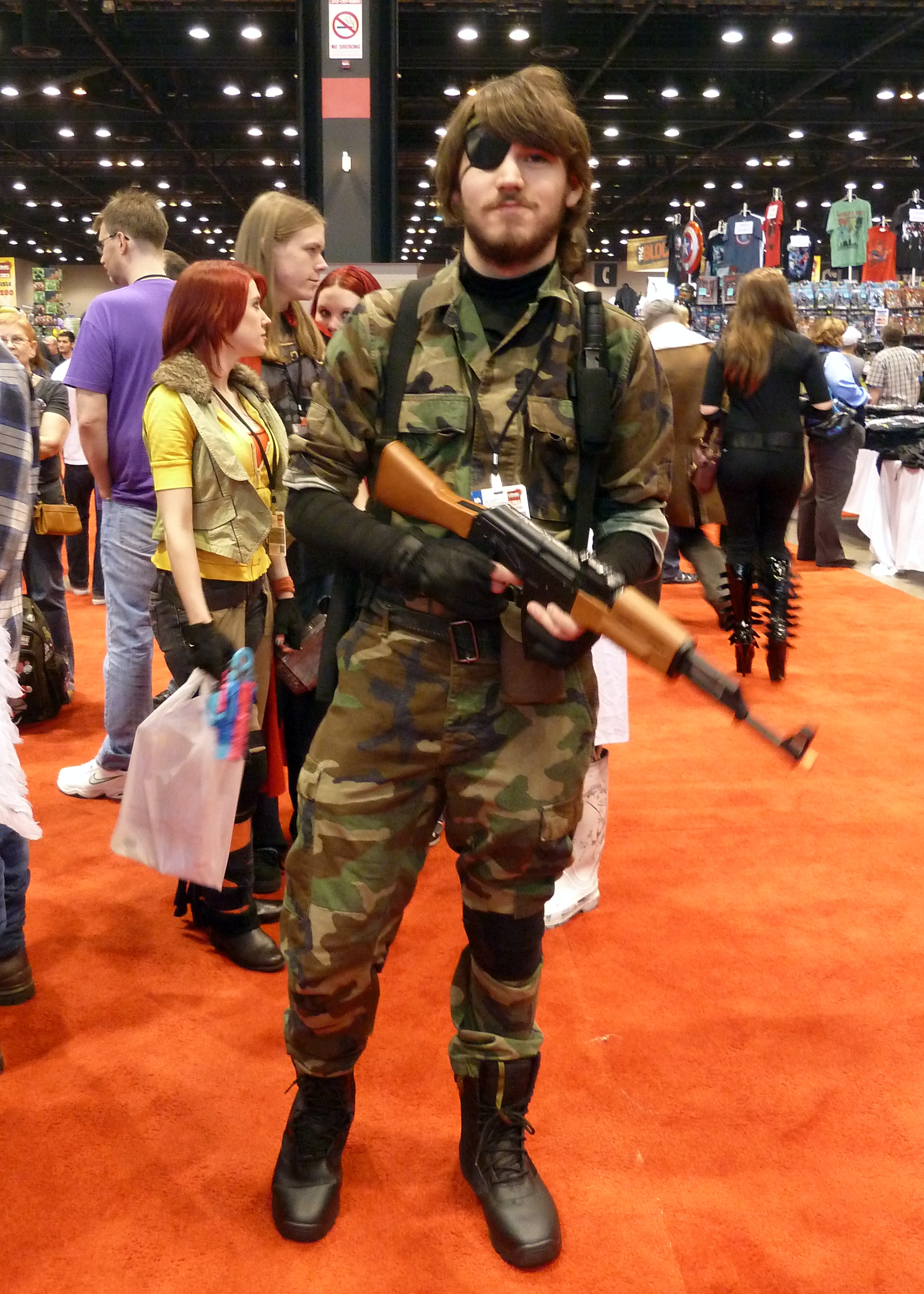 Snake of Metal Gear Solid Cosplay at the 2013 Chicago Comic & Entertainment Expo (C2E2).